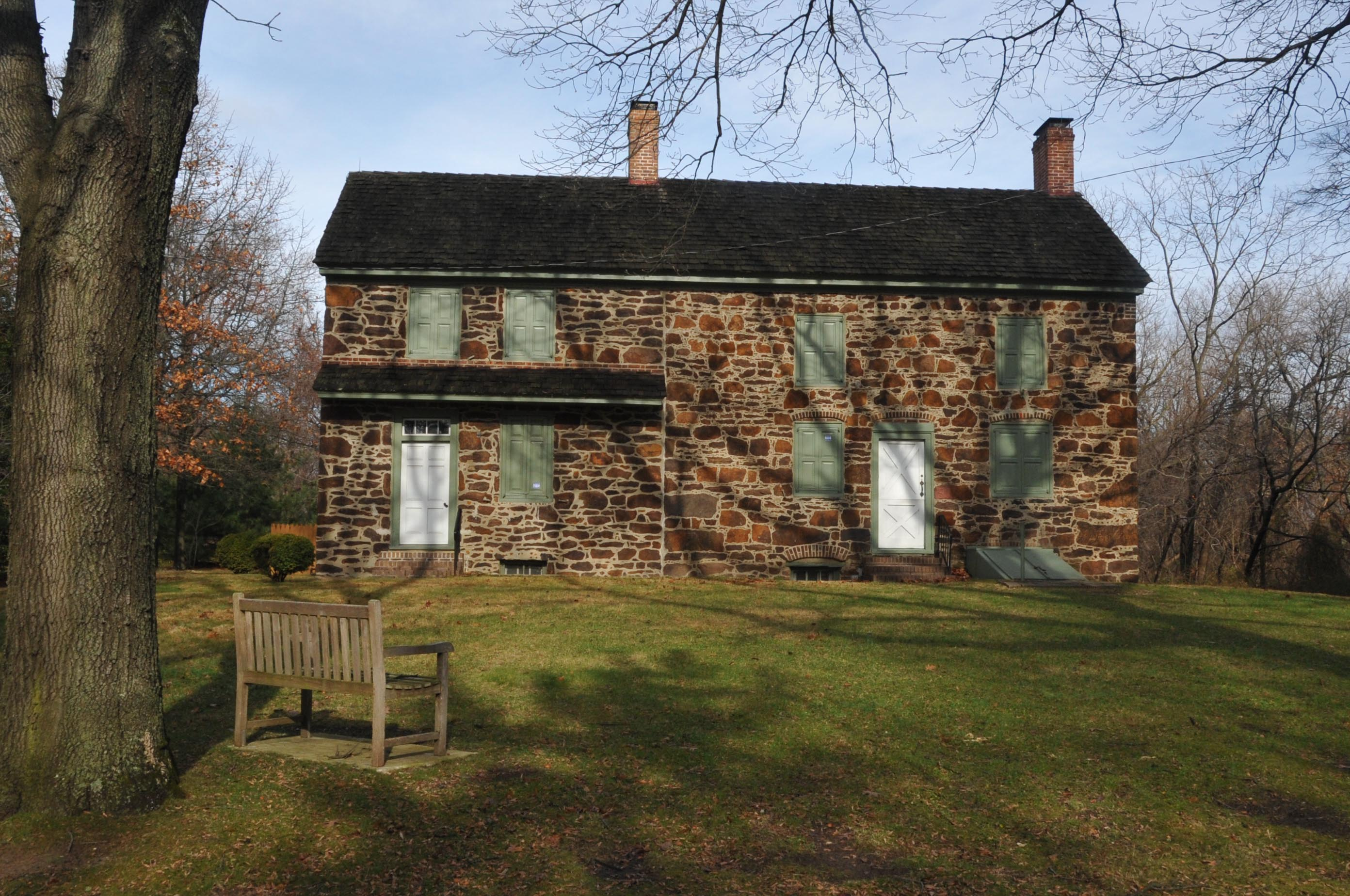 QUAKER FARMHOUSE CIRCA 1710 AND OCCUPIED BY JUST 2 FAMILES – BURROUGH AND DOVER – UP TO 1960